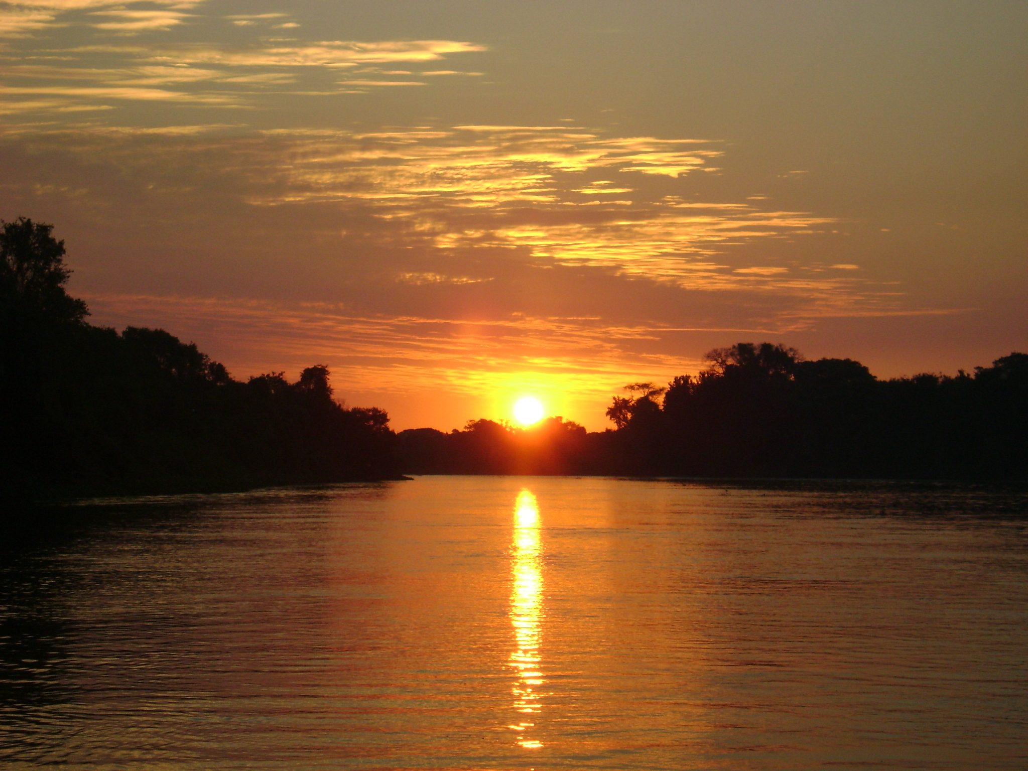 A Sunset in Pantanal located in Mato Grosso, Brazil. Taken in 2009.